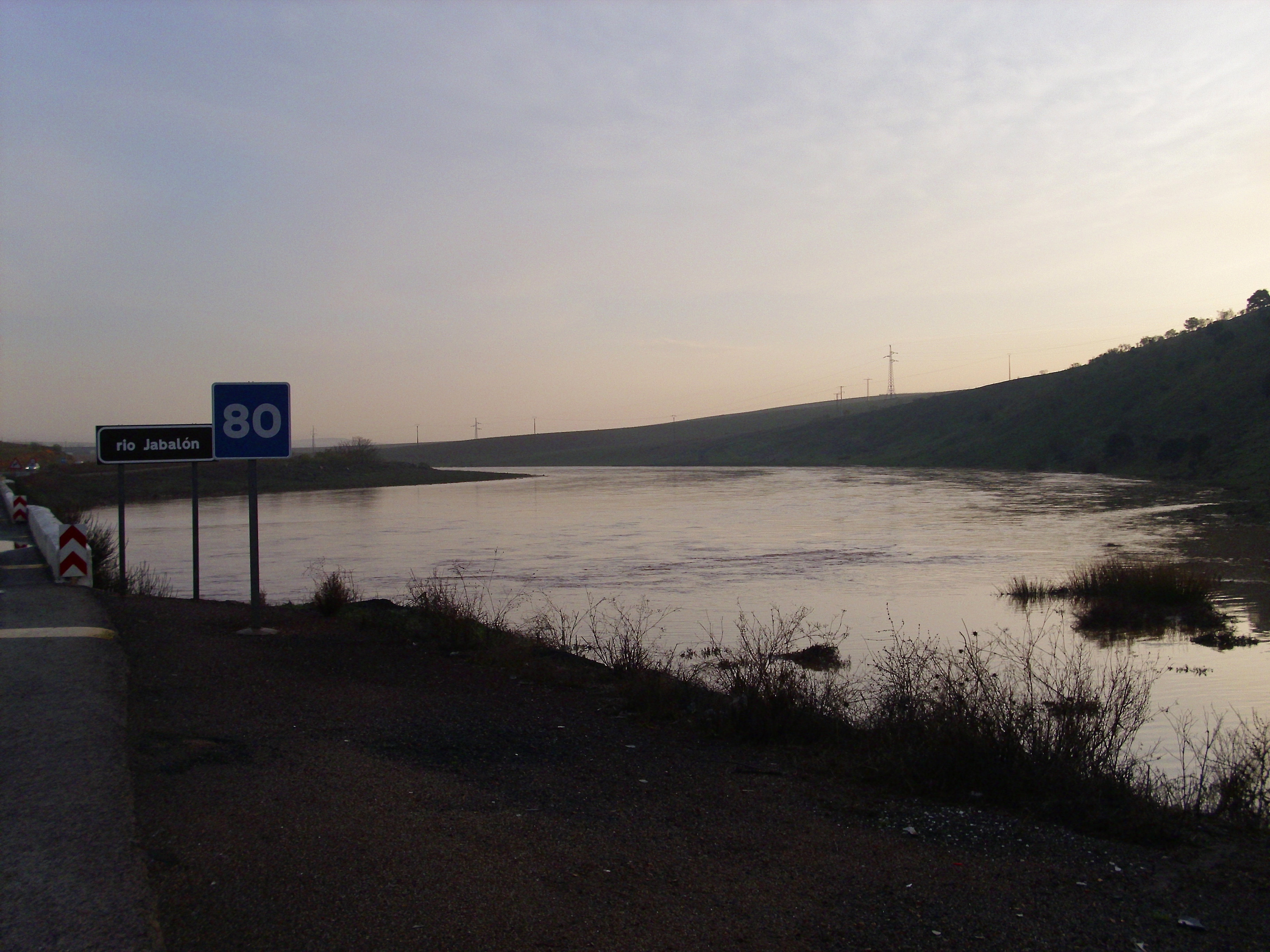 Jabalón river tributary of Guadiana river from Caracuel bridge, at down, Campo de Calatrava, Spain